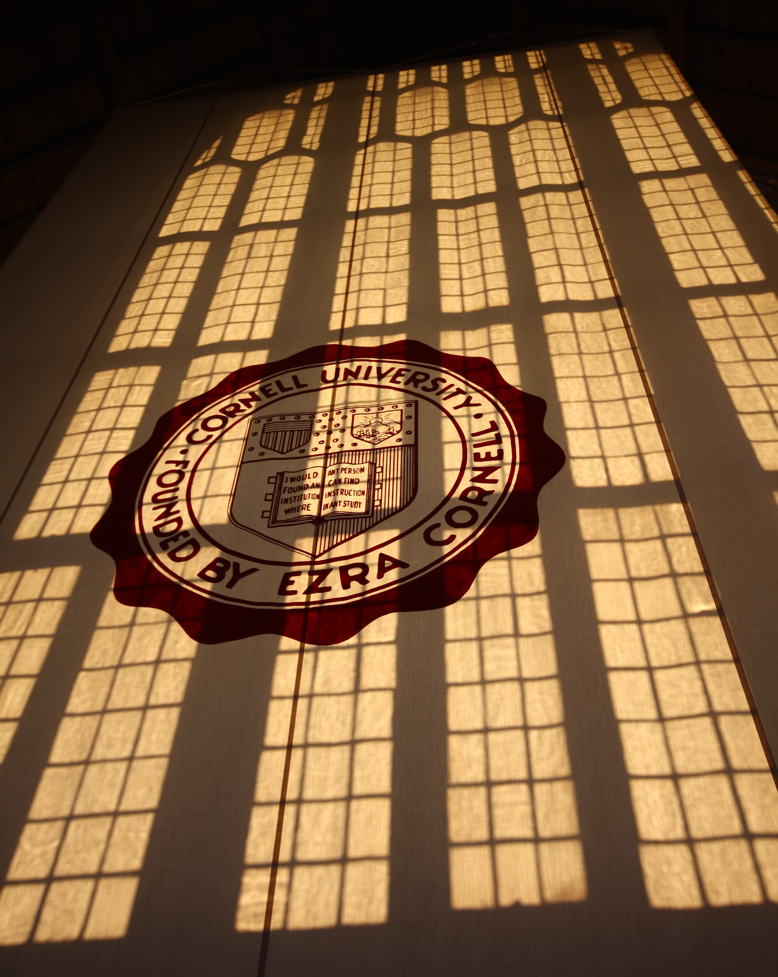 Banner inside the Memorial Room (ballroom) of student union building Willard Straight Hall at Cornell University Cropped by Eustress